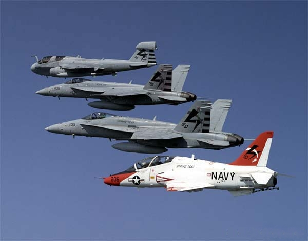 A formation of U.S. Navy aircraft from Air Test and Evaluation Squadron VX-23 Salty Dogs in flight. VX-23 is based at Naval Air Station Patuxent River, Maryland (USA), and flies various aircraft, like the depicted (from top to bottom) Grumman EA-6B Prowler, Boeing F/A-18E Super Hornet, McDonnell Douglas F/A-18C Hornet and McDonnell Douglas T-45 Goshawk.